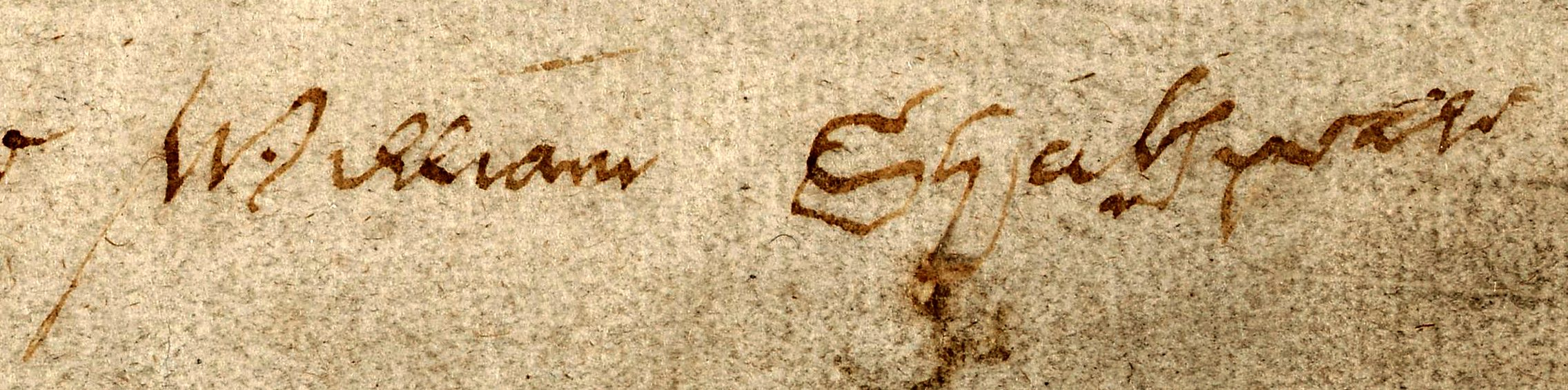 Scan of image of signature from third page of Shakespeare's will, enhanced with image software